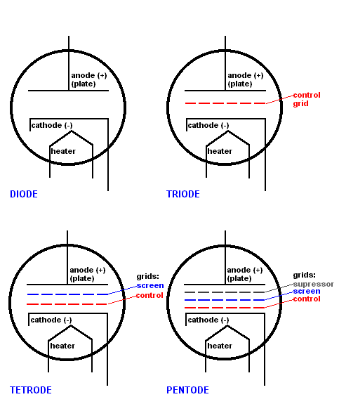 mixtube